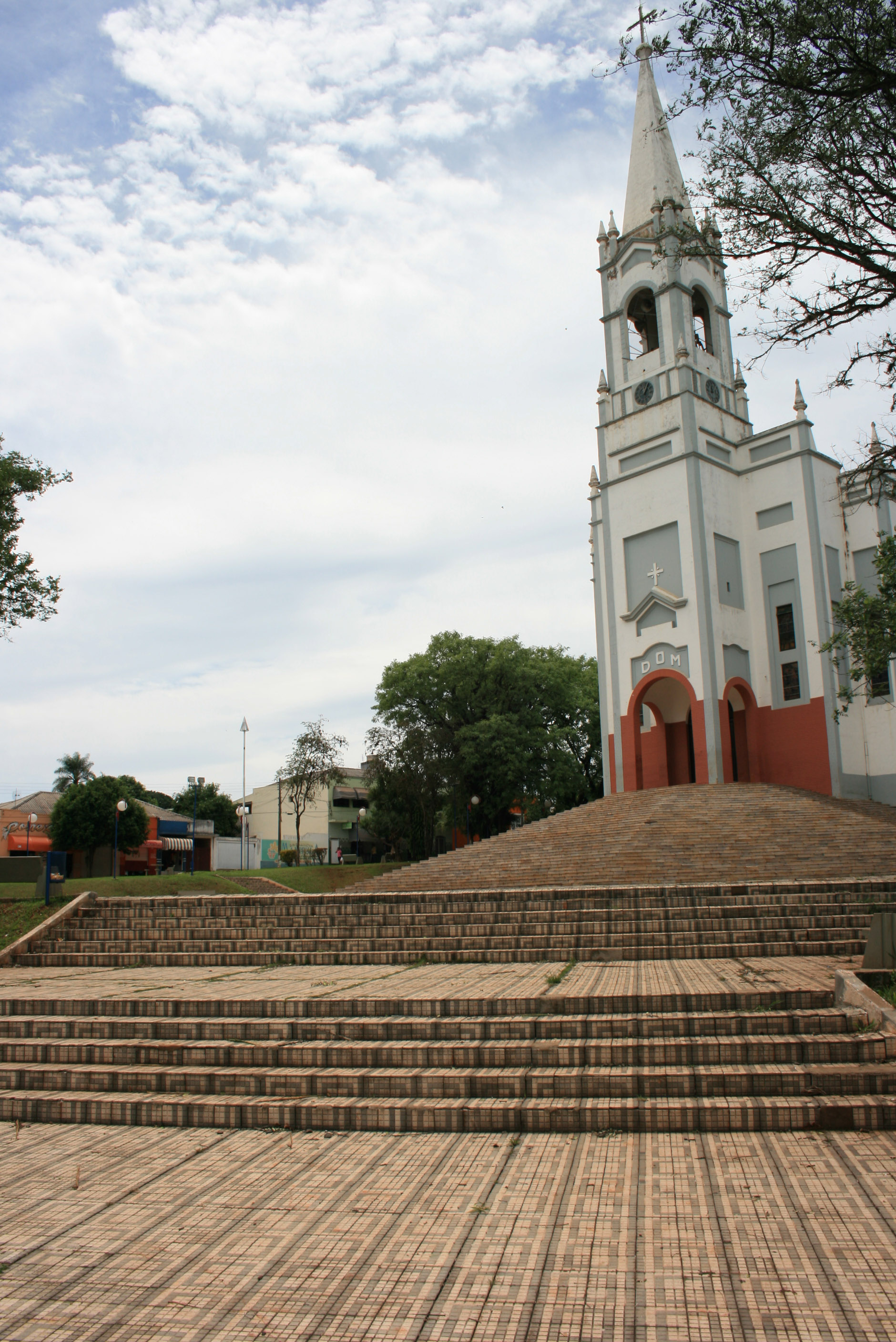 Main catholic church in the city of Porecatu, state of Paraná, Brazil.